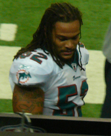 If used somewhere other than Wikipedia, Nelson, by name.